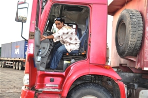 Oumalkaire Omar Djama driving a heavy weight truck at her work place Al Gamil, the largest construction company in Djibouti.